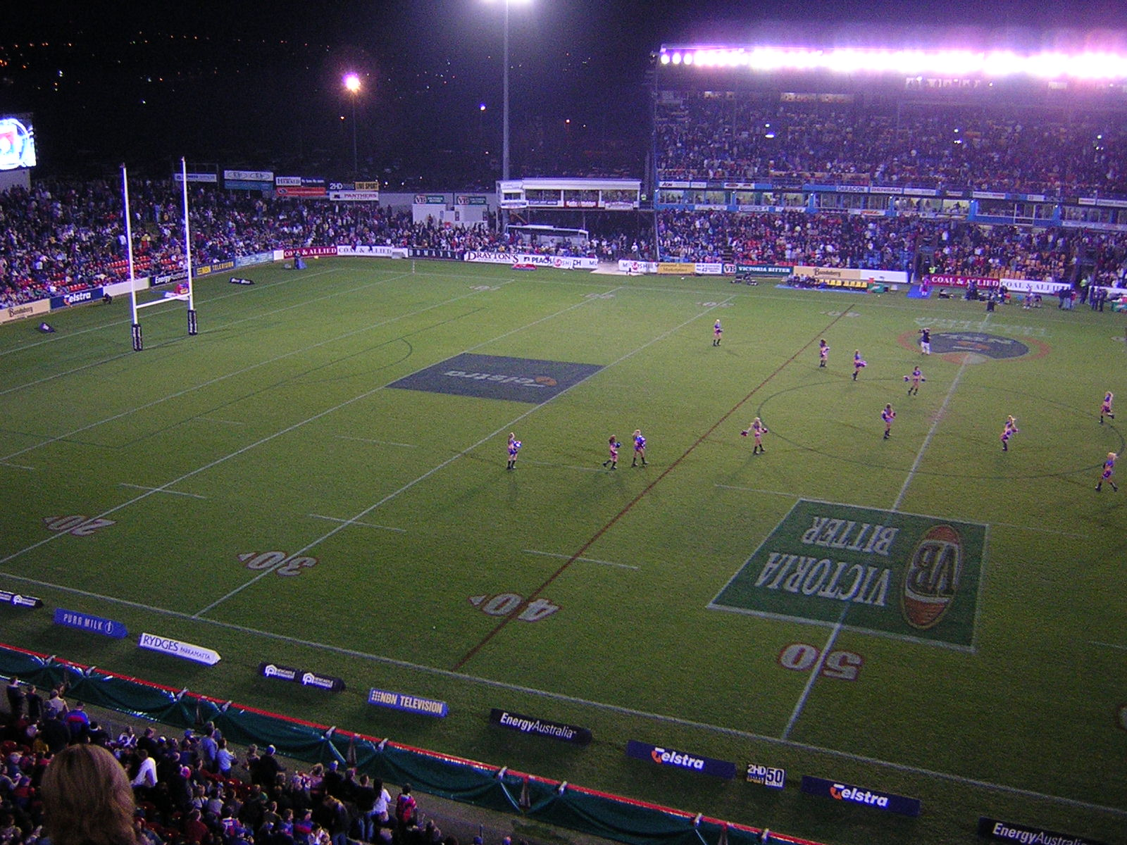 This is a photo of Energy Australia Stadium - where the Newcastle Knights play Rugby League in the NRL.